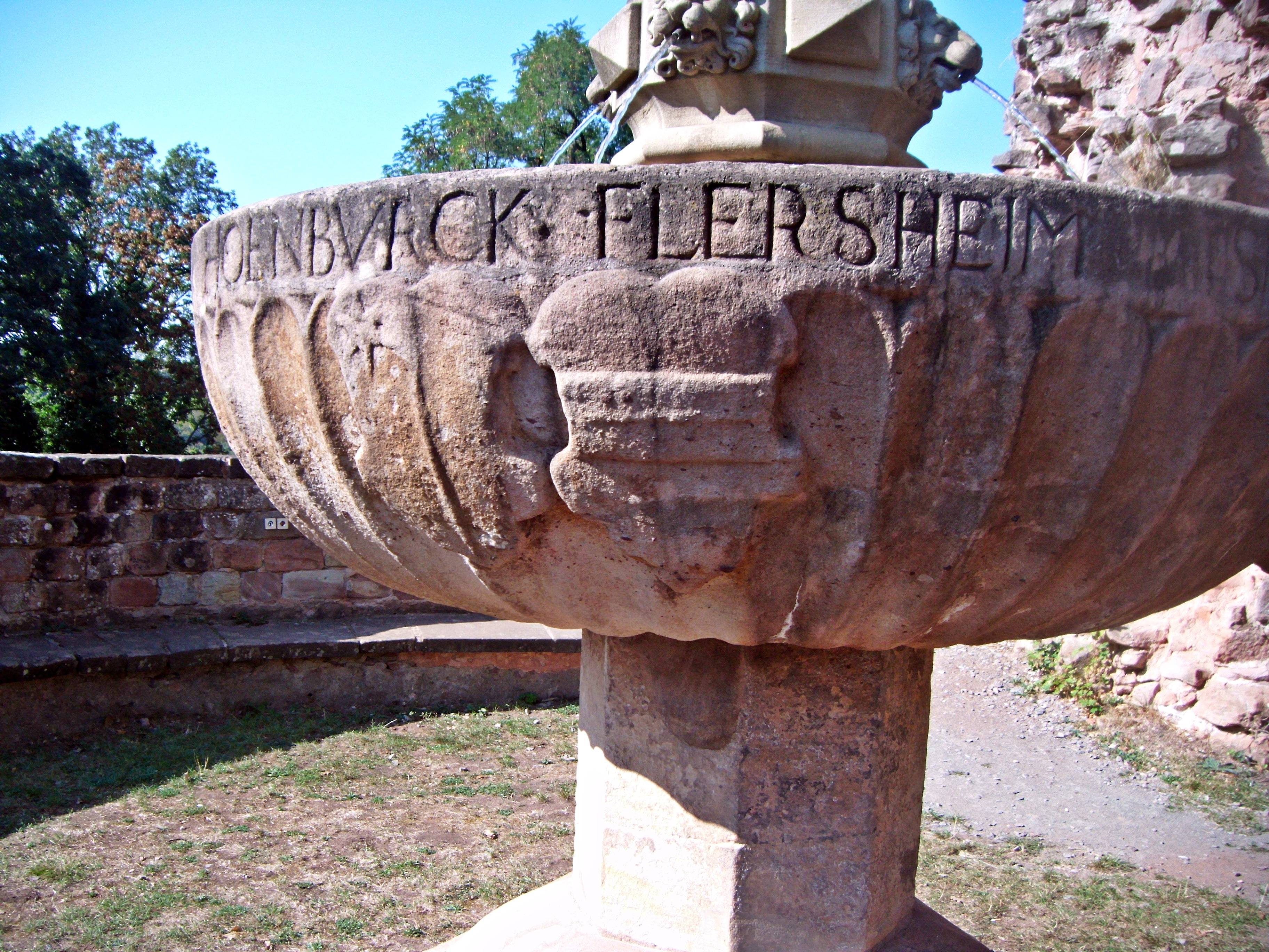 Burg Nanstein, Flersheimer Wappen an Brunnenschale